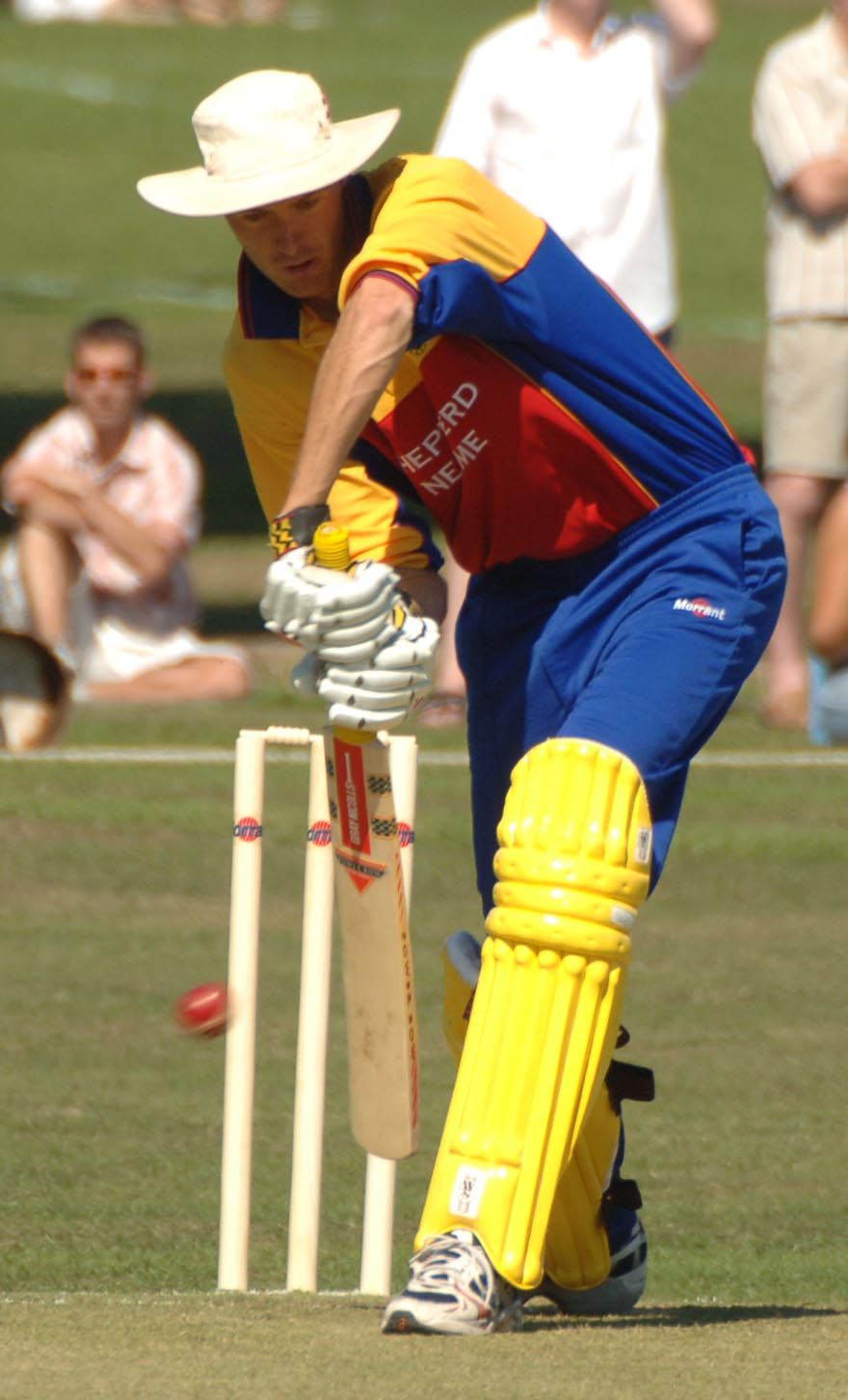 Will Jefferson at the Paul Grayson Benefit Match, Upminster. See also Upminster CC.